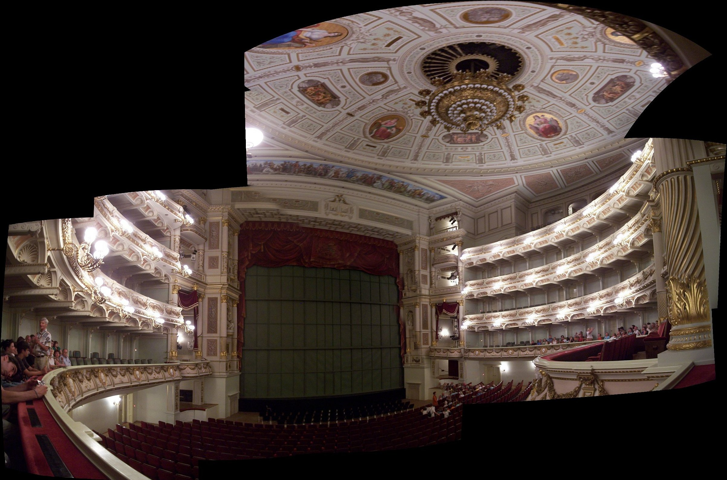 Semperoper, Dresden.